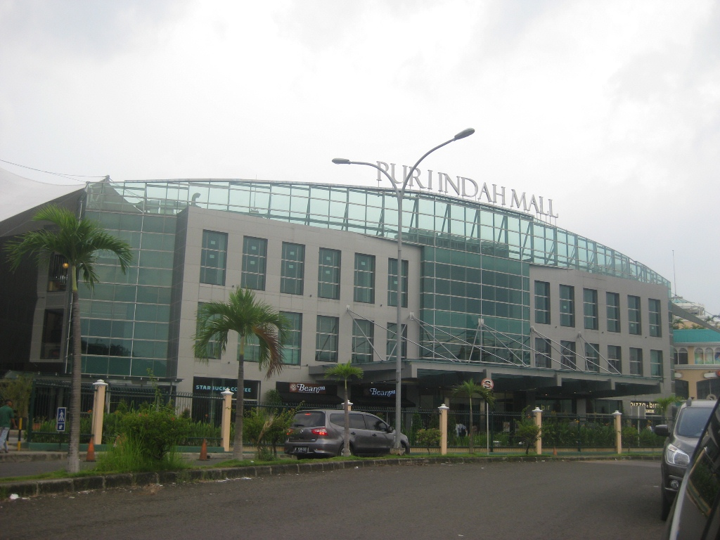 Puri Indah Mall, an upper middle class shopping mall located in Kembangan district, city of West Jakarta, Indonesia. Car shown in front of the mall is a Nissan Grand Livina 1.5 SV (L11).